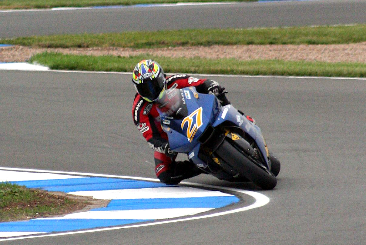 2005 British motorcycle Grand Prix – MotoGP – #27 Franco Battaini – Blata – Blata WCM